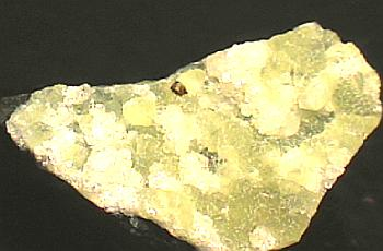 Greenockite, Prehnite Locality: Houdaille Quarry (Summit Quarry; Commonwealth Quarry), Springfield, Union County, New Jersey, USA (Locality at ) A sharp and relatively large greenockite crystal, especially from this - one of the rarest and most difficult to obtain localities for the species! The crystal measures just over 2 mm in size. It was collected from a small pocket in June of 1968 by Richard Kosnar, apparently when they still lived in Jersey. This greenockite is very significant because it's a miniature and only a handful were collected, while most were only thumbnails Obviously not from Franklin, I know...but as good a place to show it as any! 5 x 3 x 1.5 cm